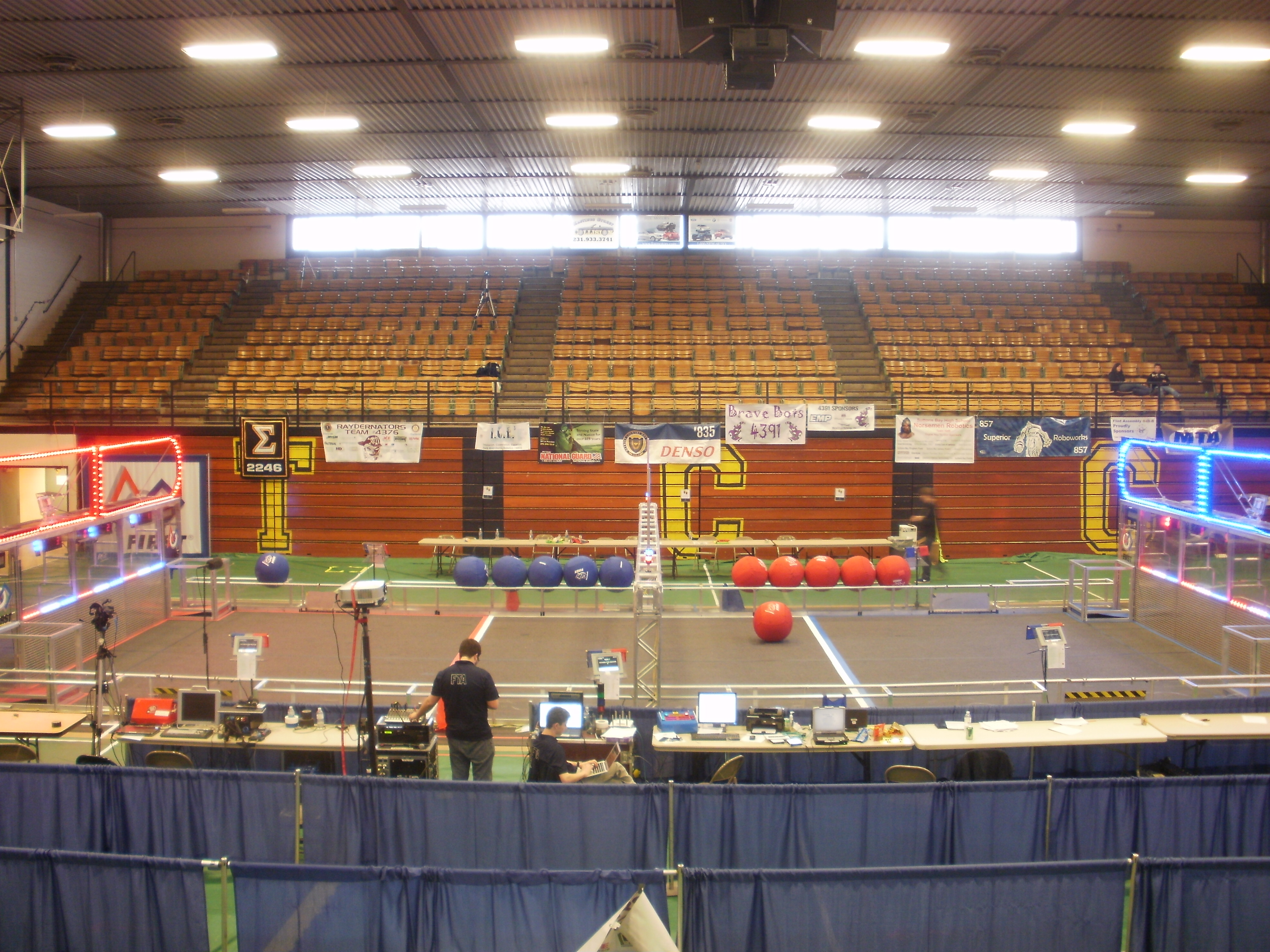 View of the field for the 2014 FRC game Aerial Assist. Shot taken at Traverse City district event.